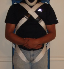 Grady Straps Close Up Image